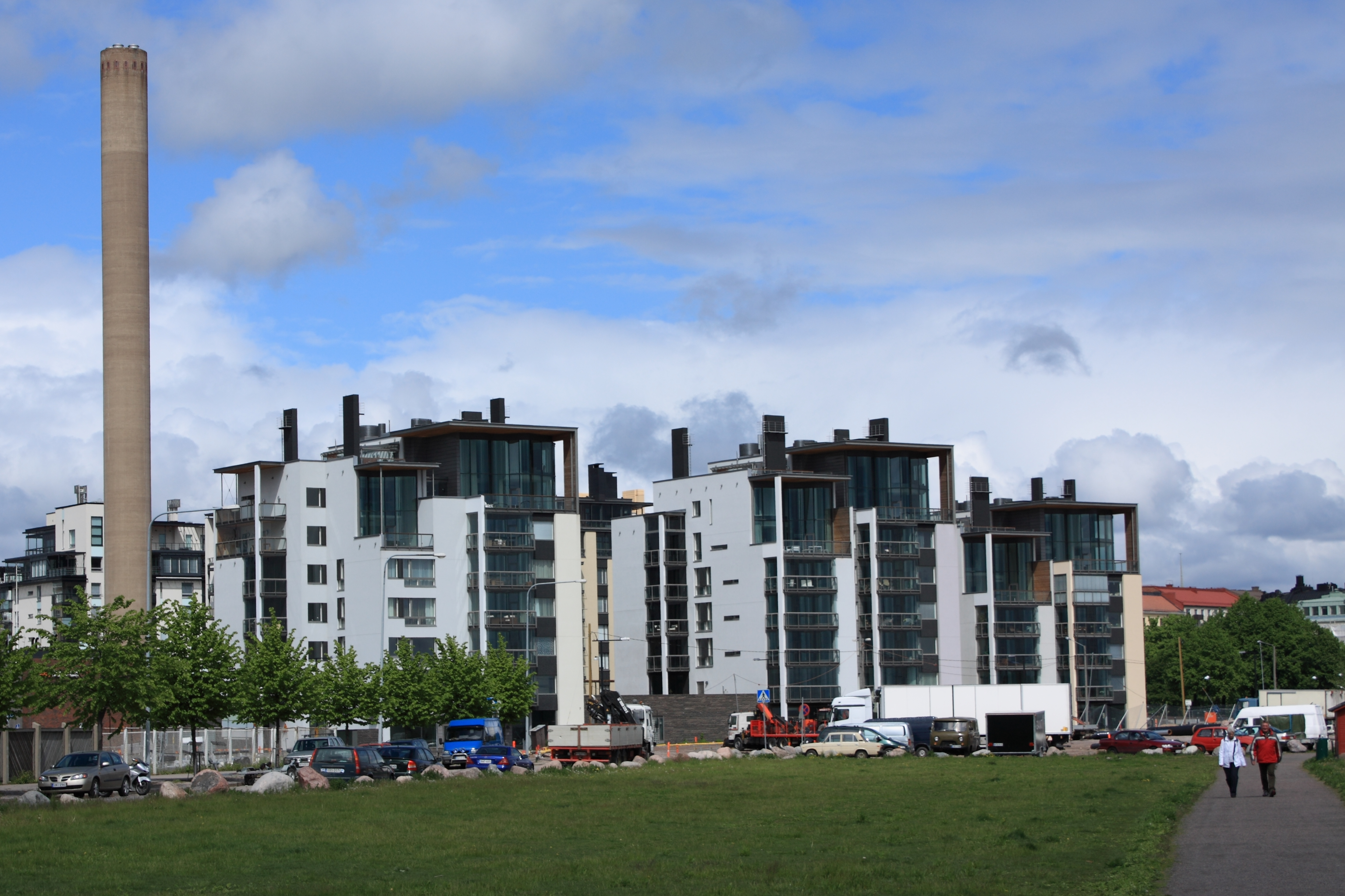 Eiranranta, Helsinki, Finland.